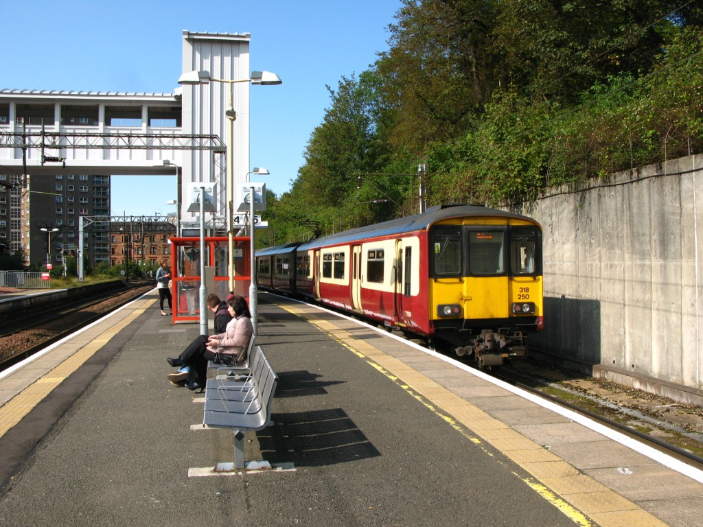 First ScotRail's 318250 arrives in the bay platform at Dalmuir station with a westbound Argyle Line service that has run via Yoker. Trains that terminate from the alternative route via Singer need to continue past the station once they have discharged their passengers to reverse in a siding before taking up their next eastbound service.